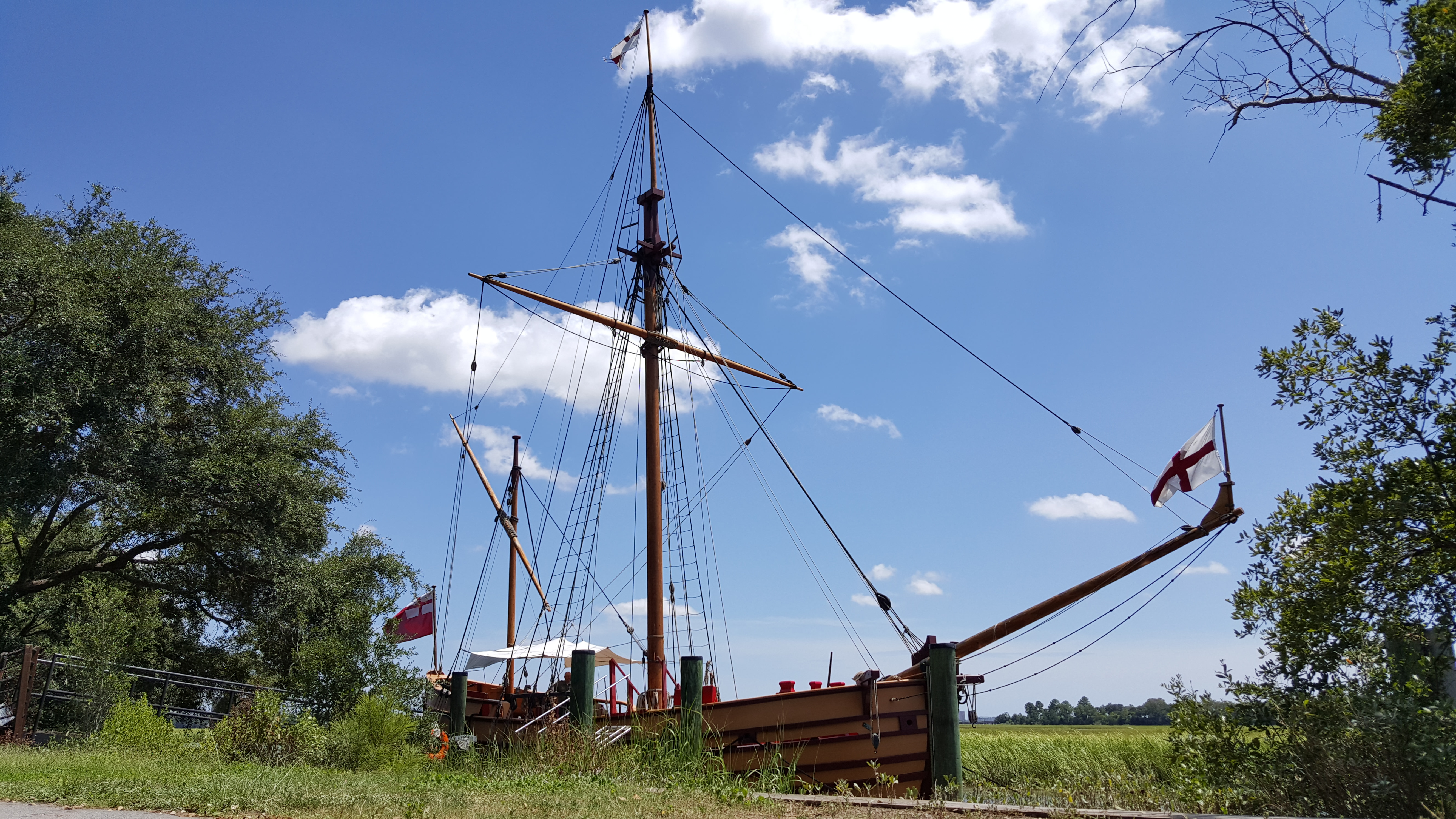 Ketch at Charles Towne Landing in South Carolina, August 23, 2017.